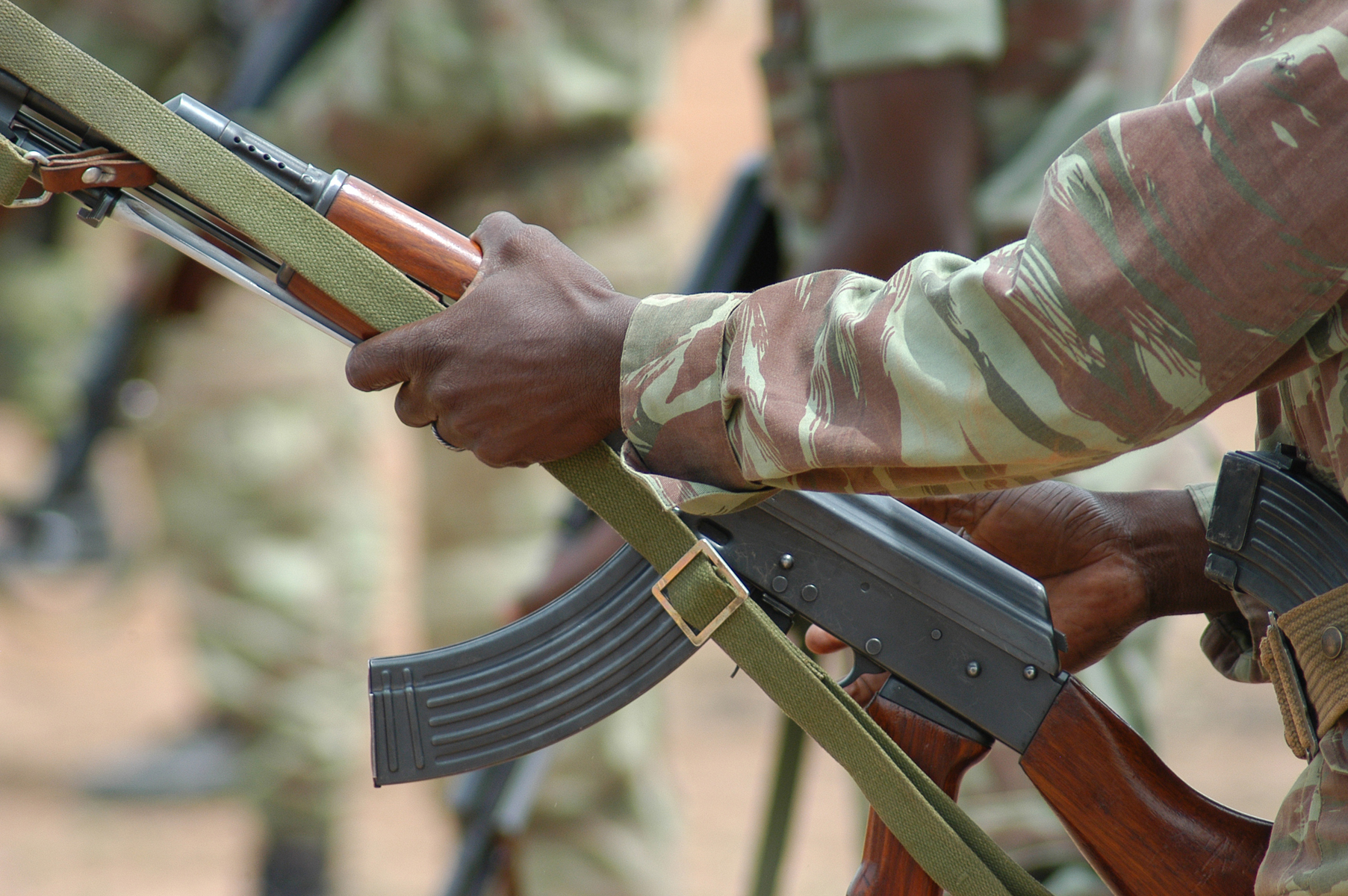 A Beninese soldier racks his weapon during a joint U.S.-Benin live fire exercise in preparation for SHARED ACCORD 2009's final field training event. SHARED ACCORD is a scheduled, combined U.S.-Benin exercise designed to improve interoperability and mutual understanding of each nation’s military tactics, techniques and procedures. Humanitarian and civil affairs events run concurrent with the military training. The exercise is scheduled to conclude June 25. VIRIN: 090616-M-3107S-0401